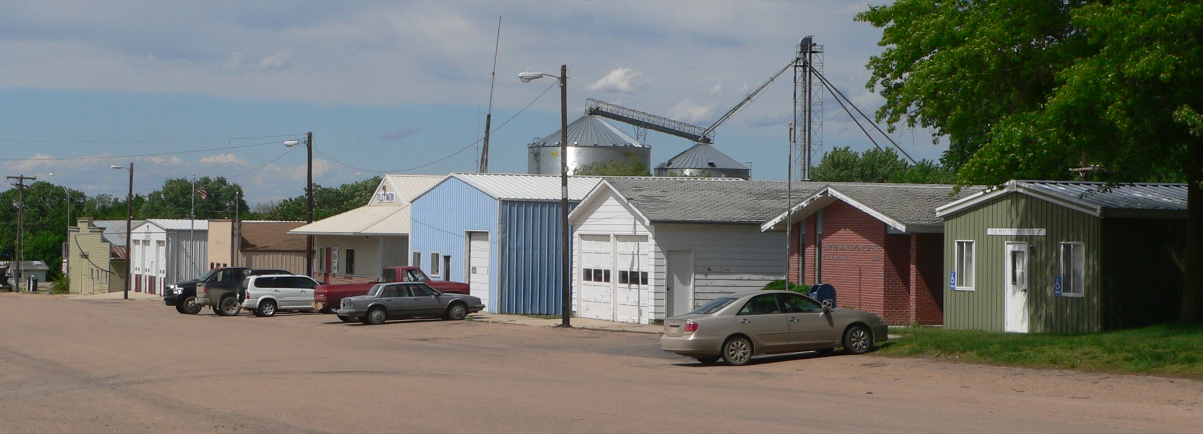 Downtown Filley, Nebraska: east side of Livingston Street, looking southeast from about Lancaster Street.